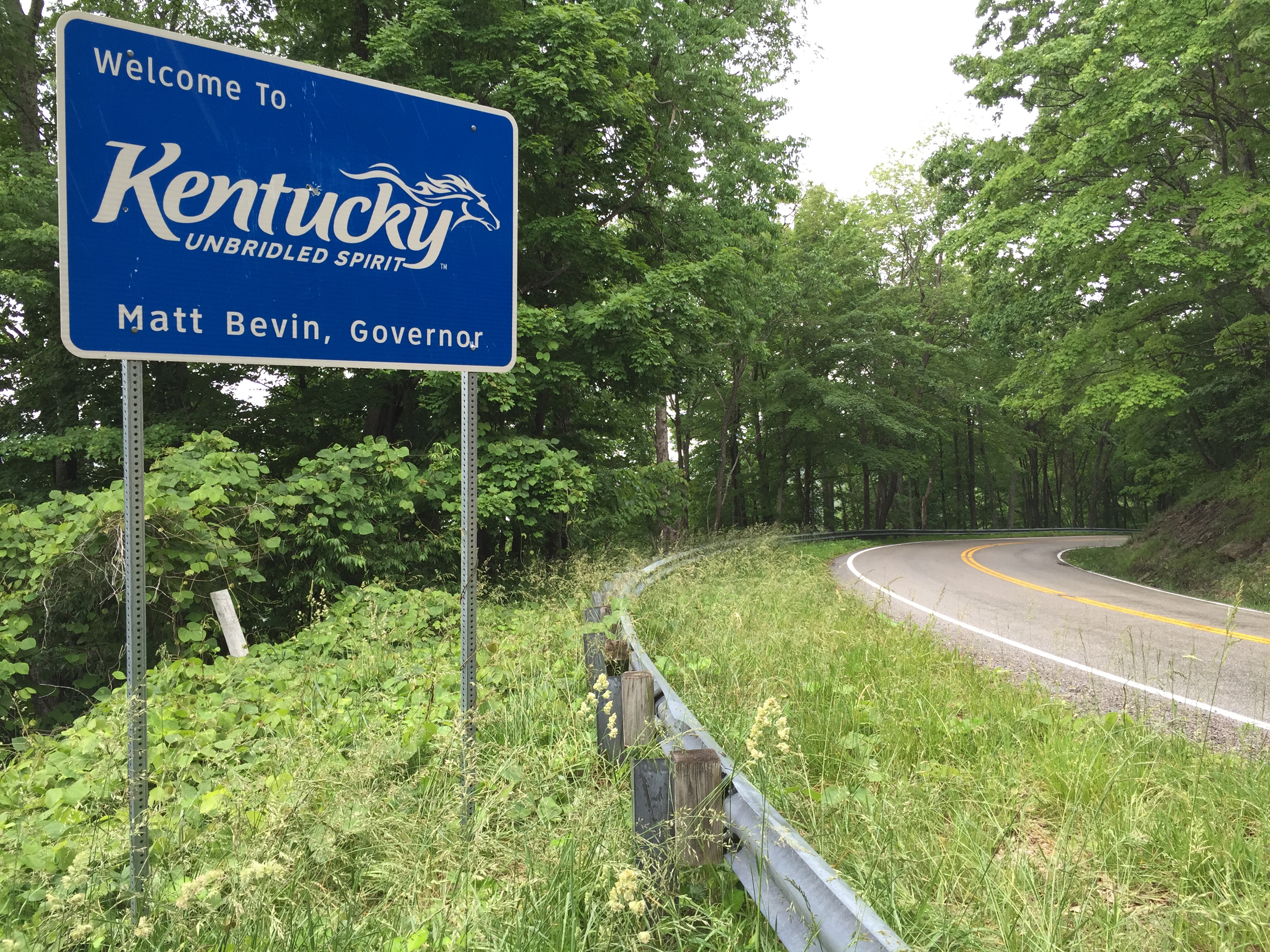 "Welcome to Kentucky" sign along northbound Kentucky State Route 160 just north of the Virginia state line in Harlan County, Kentucky